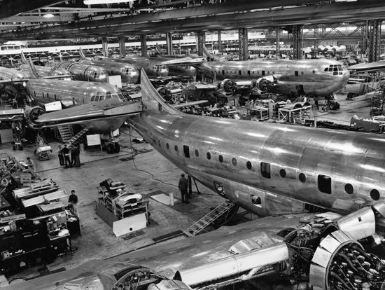 Catalog #: 00061827 Manufacturer: Boeing Designation: 377 Official Nickname: Stratocruiser Notes: Repository: San Diego Air and Space Museum Archive